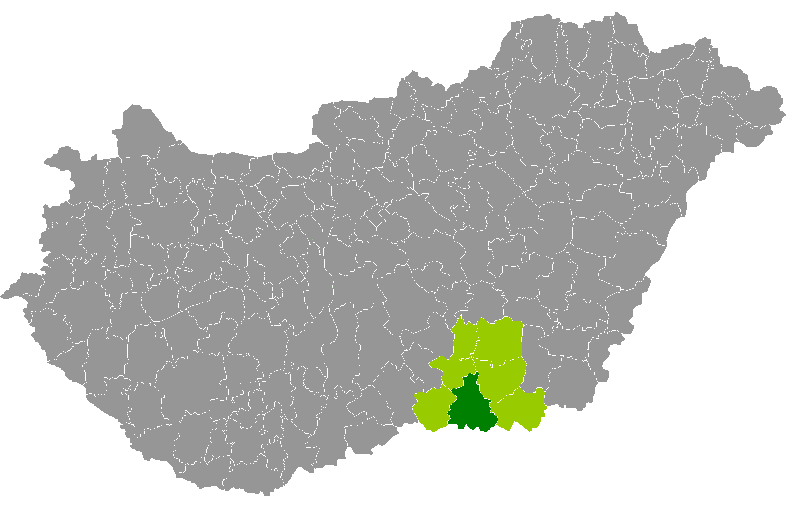 Location of Szeged District, Csongrád, Hungary